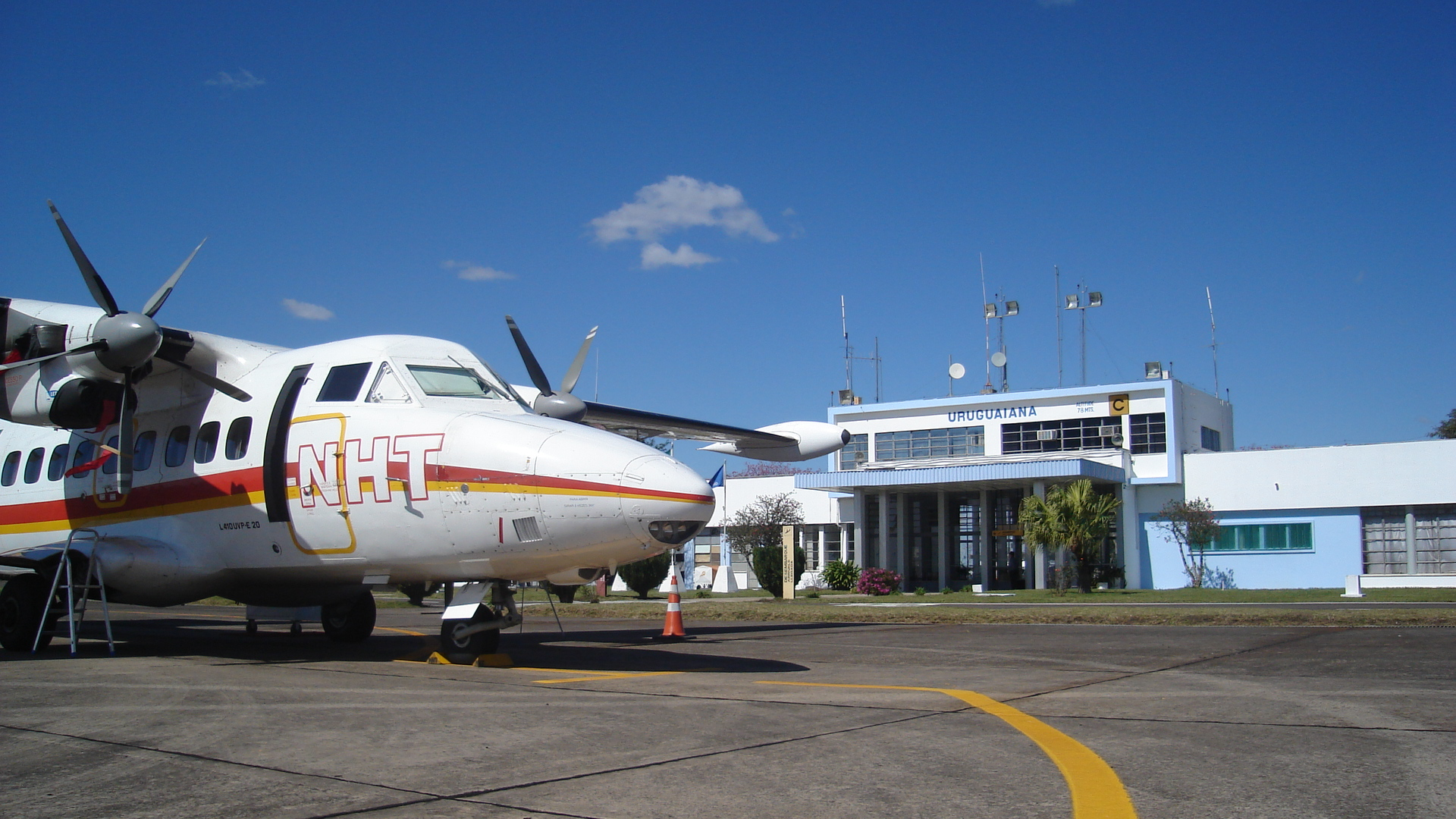 Let 410 opereted by brazilian regional airliner NHT at Uruguaiana Airport, province of Rio Grande do Sul - Brazil